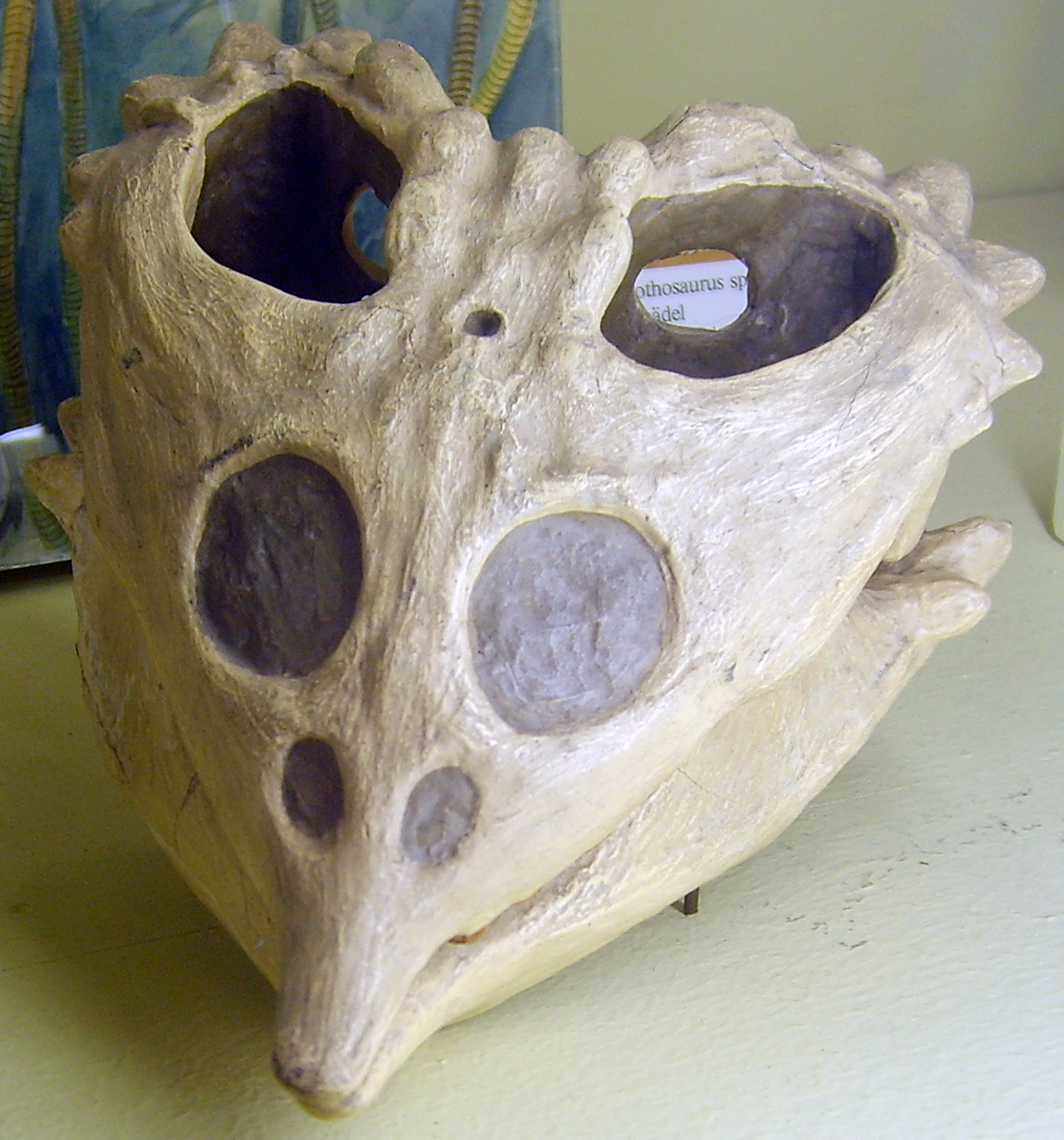 Restored Placochelys placodonta skull at the Museum für Naturkunde, Berlin.